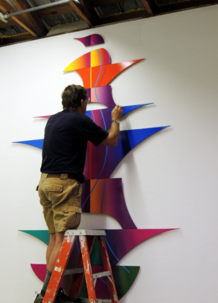 Ray L. Burggraf in the process of assembling a 12' color construction. Photo taken at the Ray Burggraf studio in 2012.